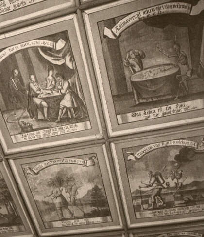 well-known Dance of Death representations in the cemetery chapel of Wondreb Description in de wikipedia Ausschnitt aus dem Totentanz von Wondreb Fotograf: Walter J. Pilsak, Waldsassen